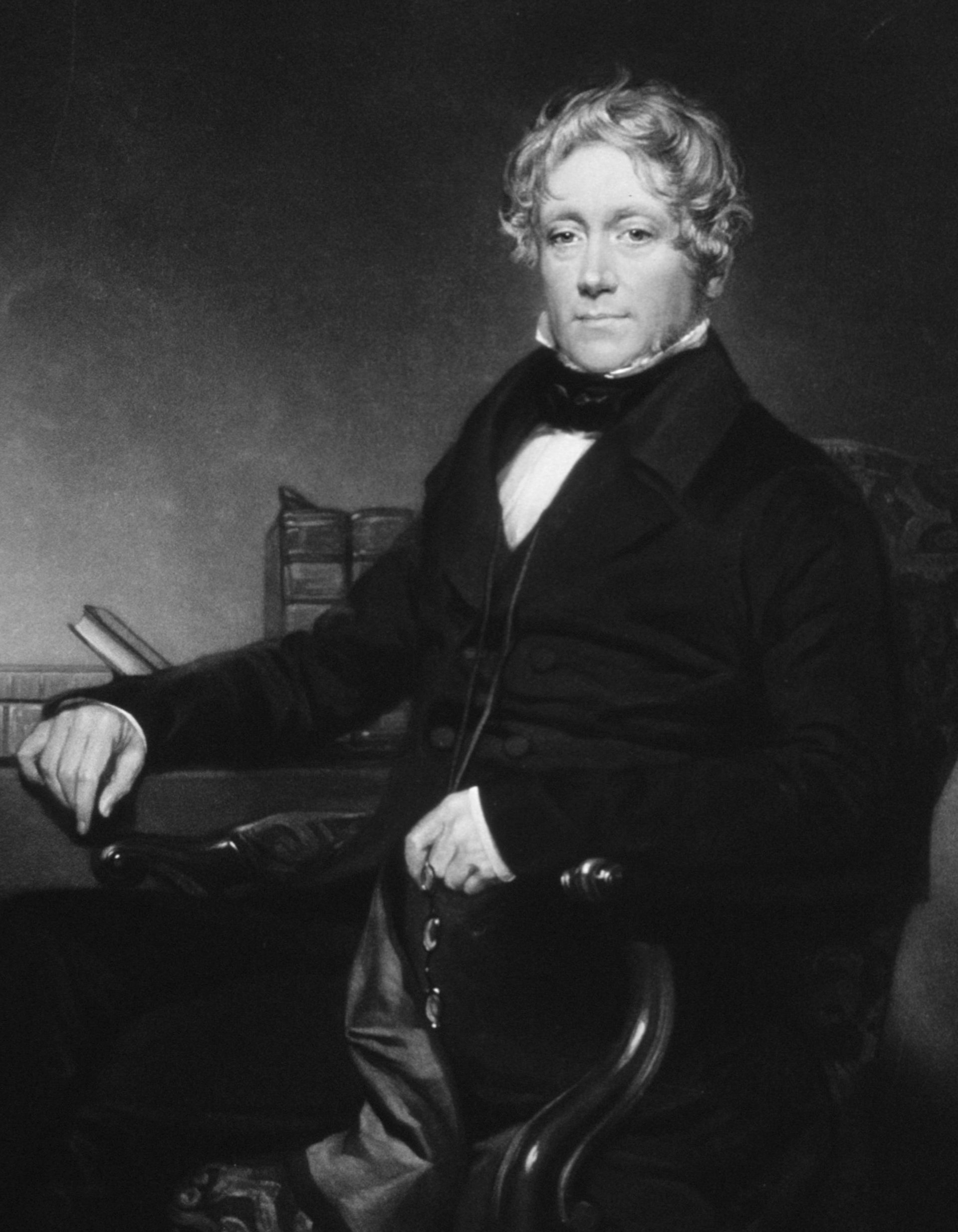 The image is of John Conolly M.D. 1794 - 1866. Other likeness of this subject are at : Ealing Local History Centre (United Kingdom) external link: [1] Wellcome Institute (United Kingdom) National Library of Medicine (USA) Bronze bust at West London Mental Healthcare Trust. (United Kingdom) Marble bust at Royal_College_of_Physicians. (United Kingdom)